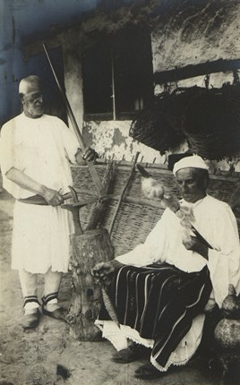 Bulgaria